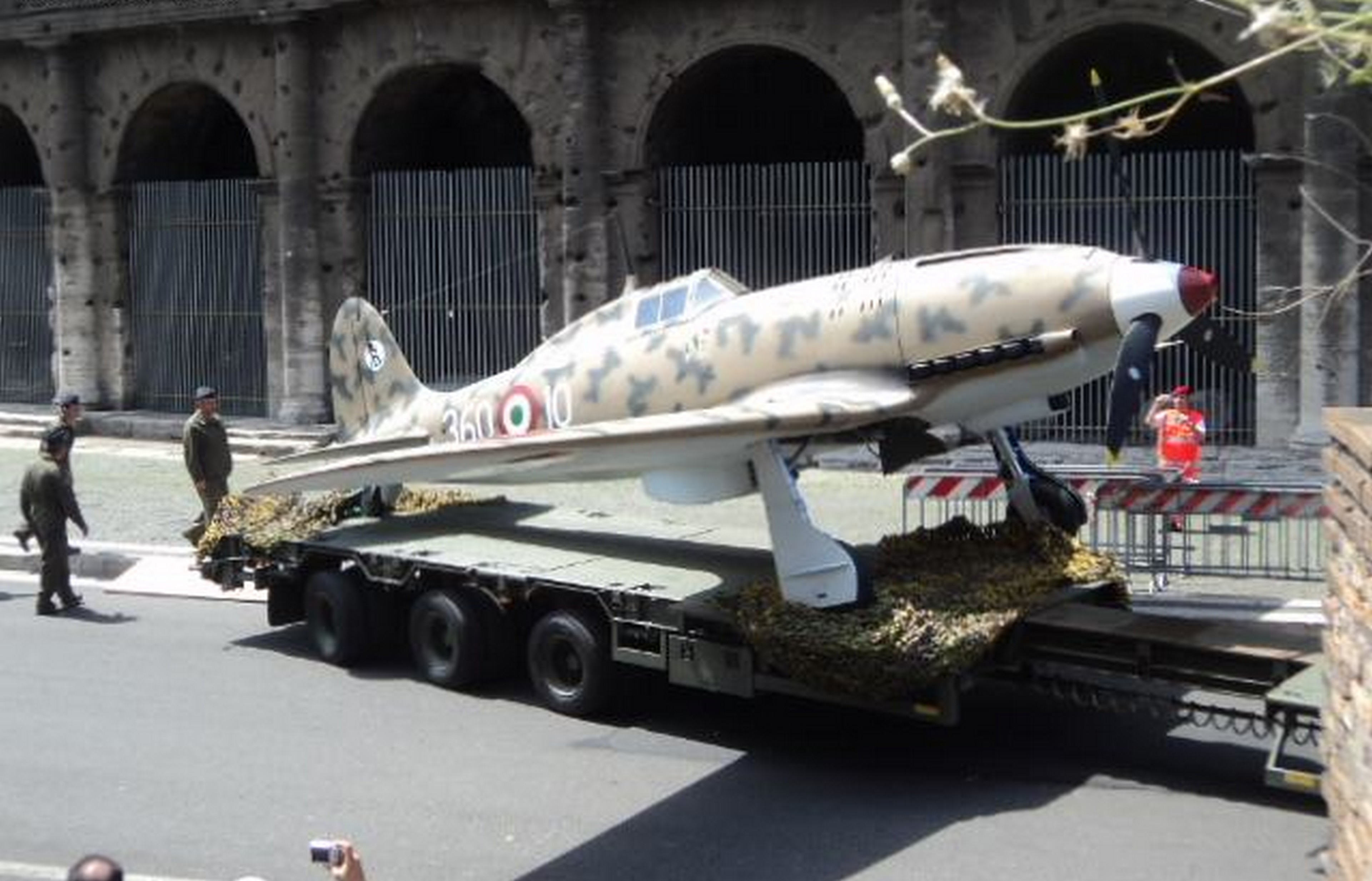 Army parade of Italy 2011